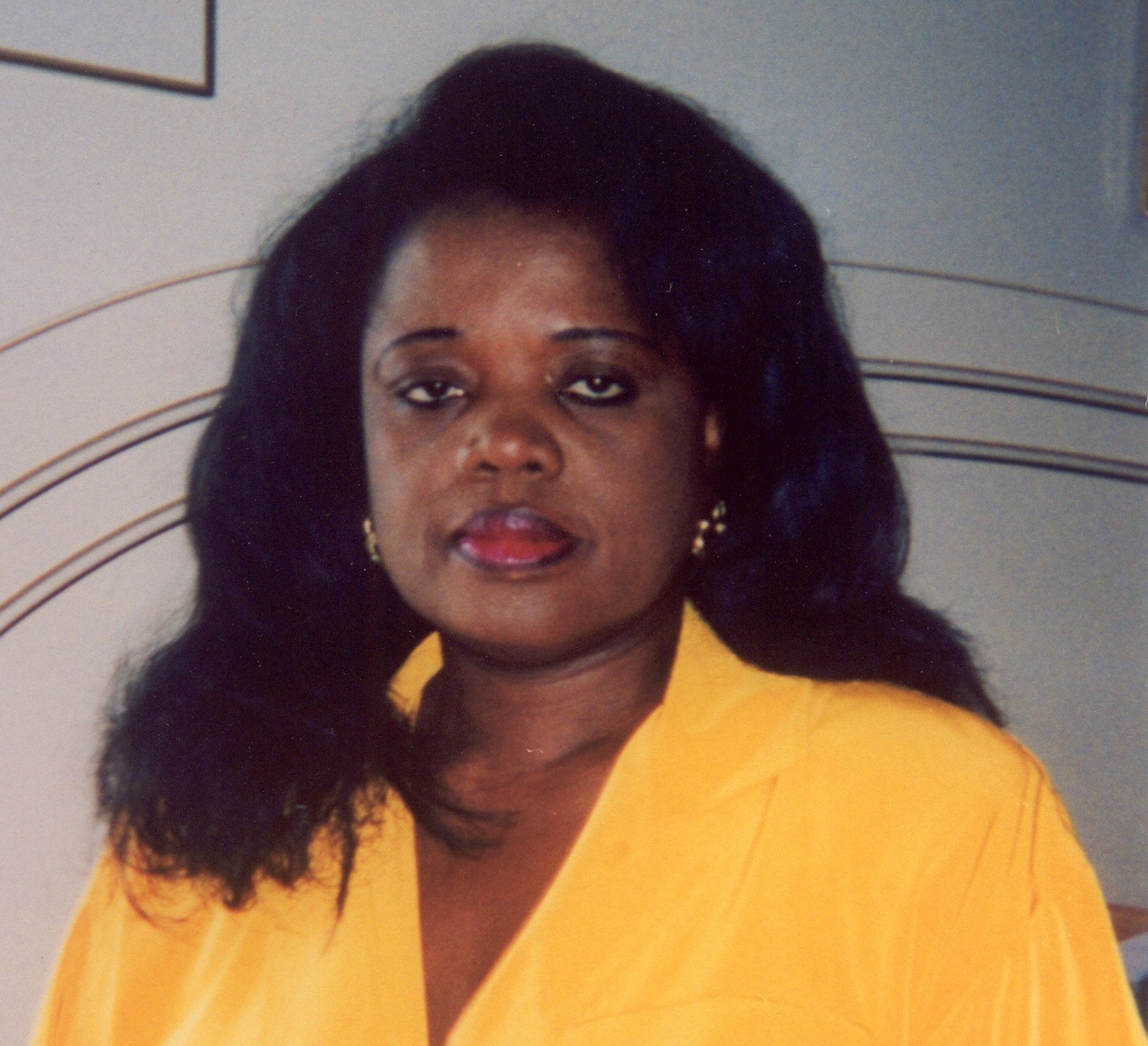 Obioma G. Nnaemeka, Chancellor's Professor of French, Women's Studies and Africana Studies, Indiana University – Purdue University Indianapolis (webpage)